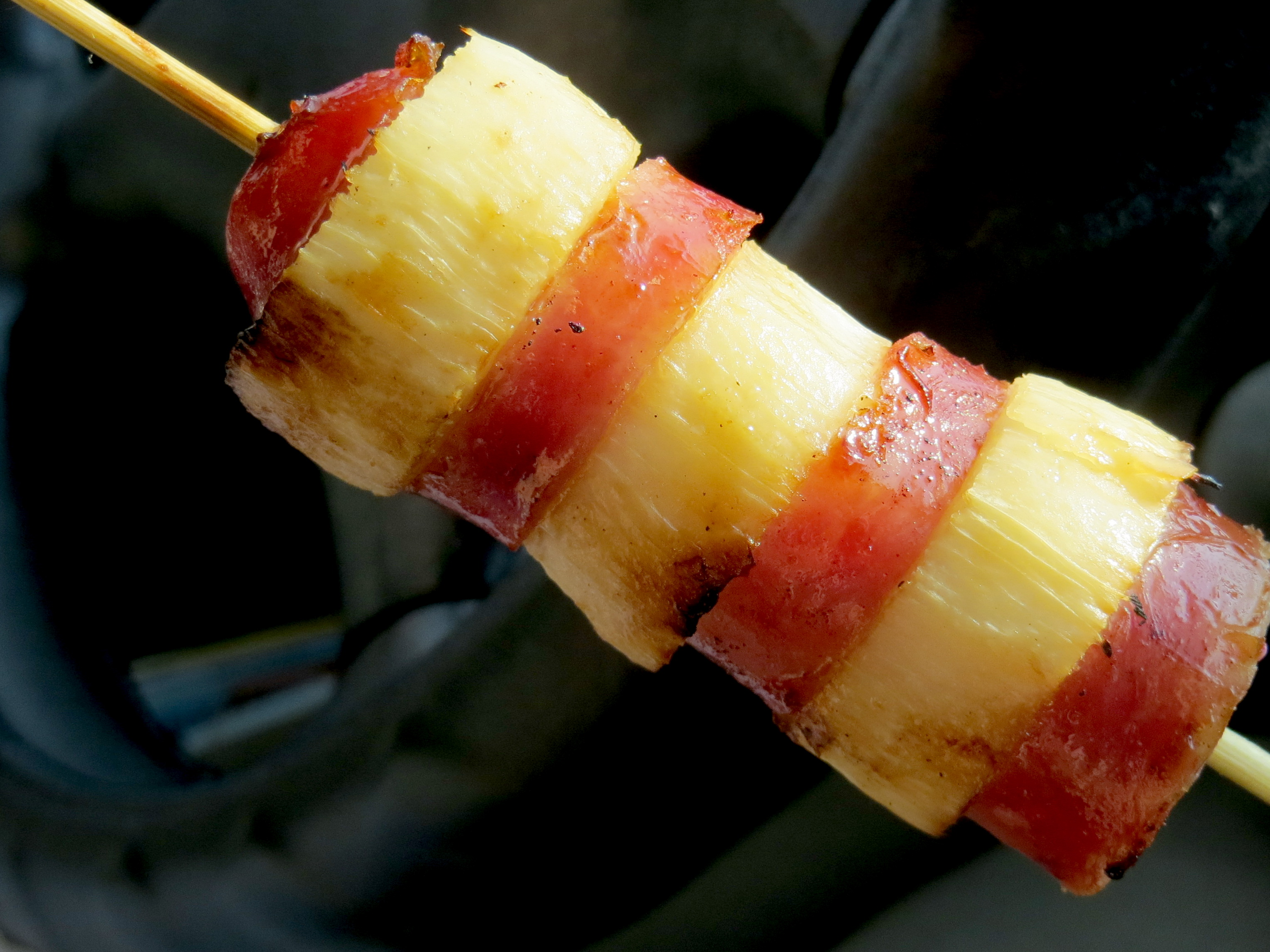 Roasted water bamboo [Zizania latifolia (Griseb.) Stapf] and sausage. A snack food of Puli, Nantou, Taiwan.